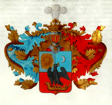 Coat of Arms of Heraskovy family